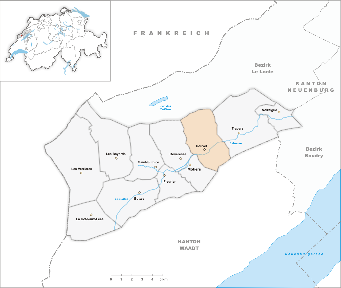 Municipality Couvet